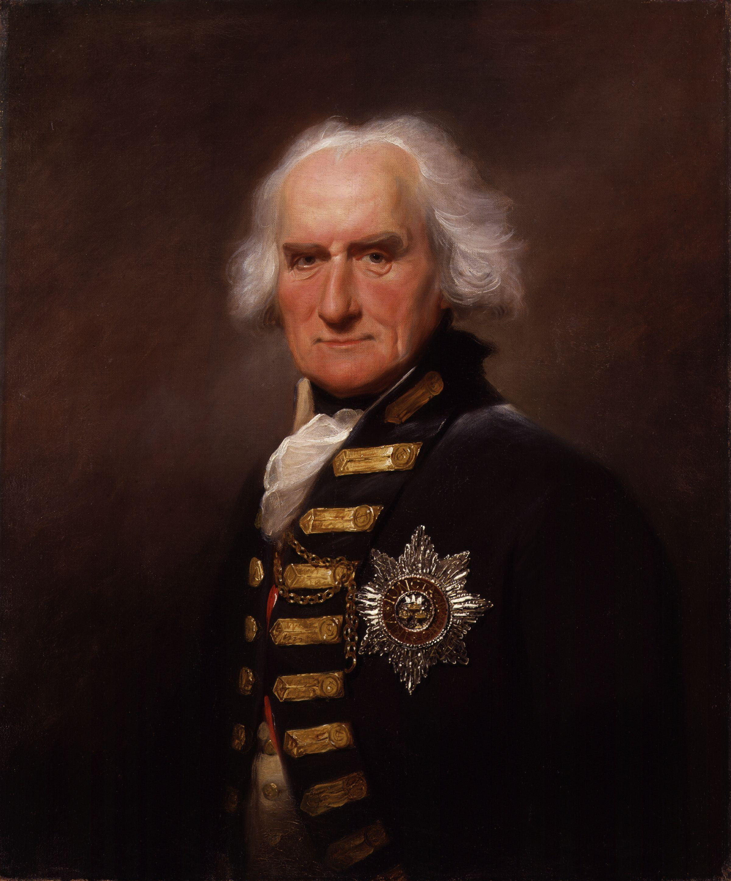 All images in this batch have been confirmed as author died before 1939 according to the official death date listed by the NPG.